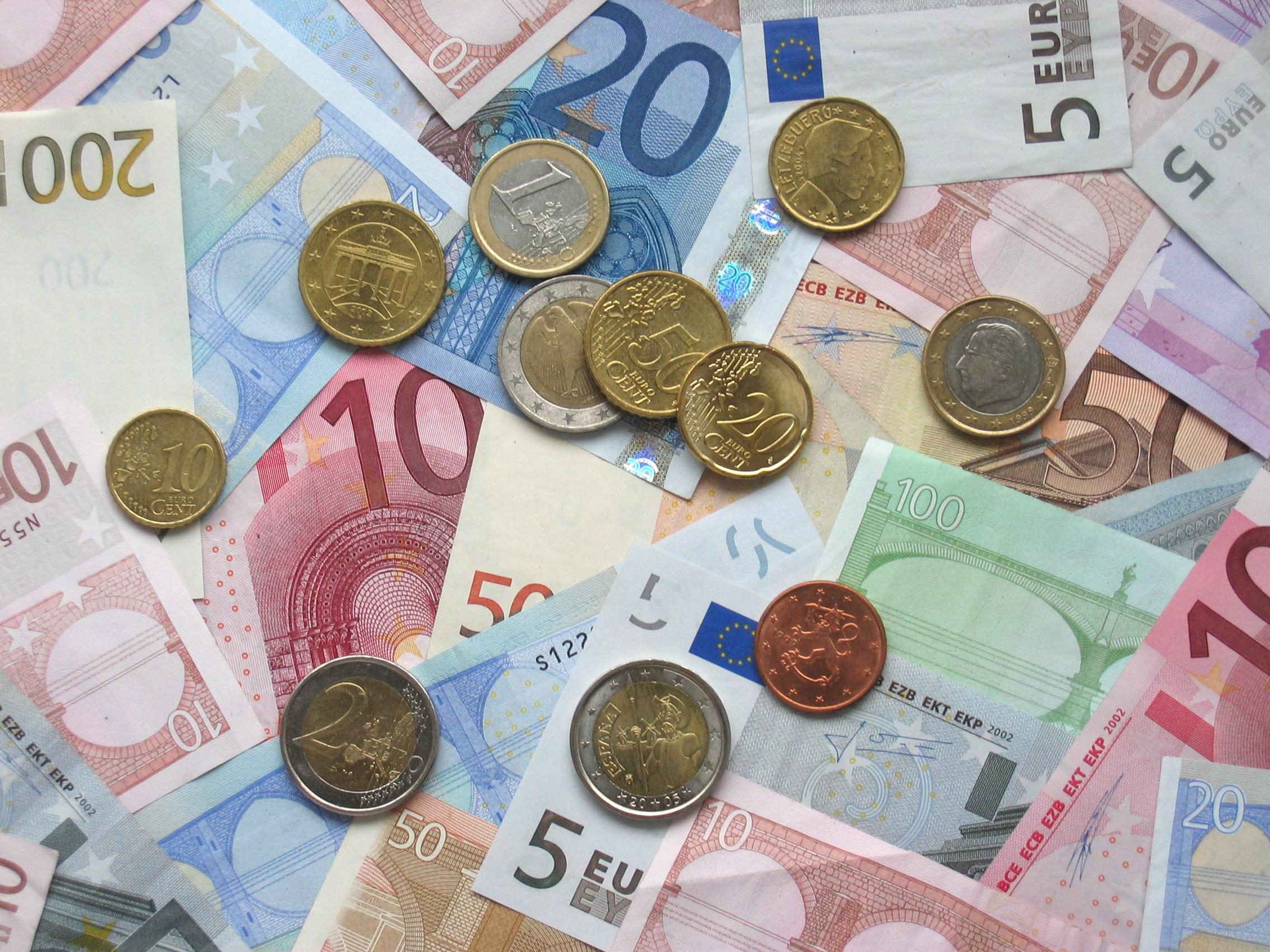 A picture of some Euro banknotes and various Euro coins.